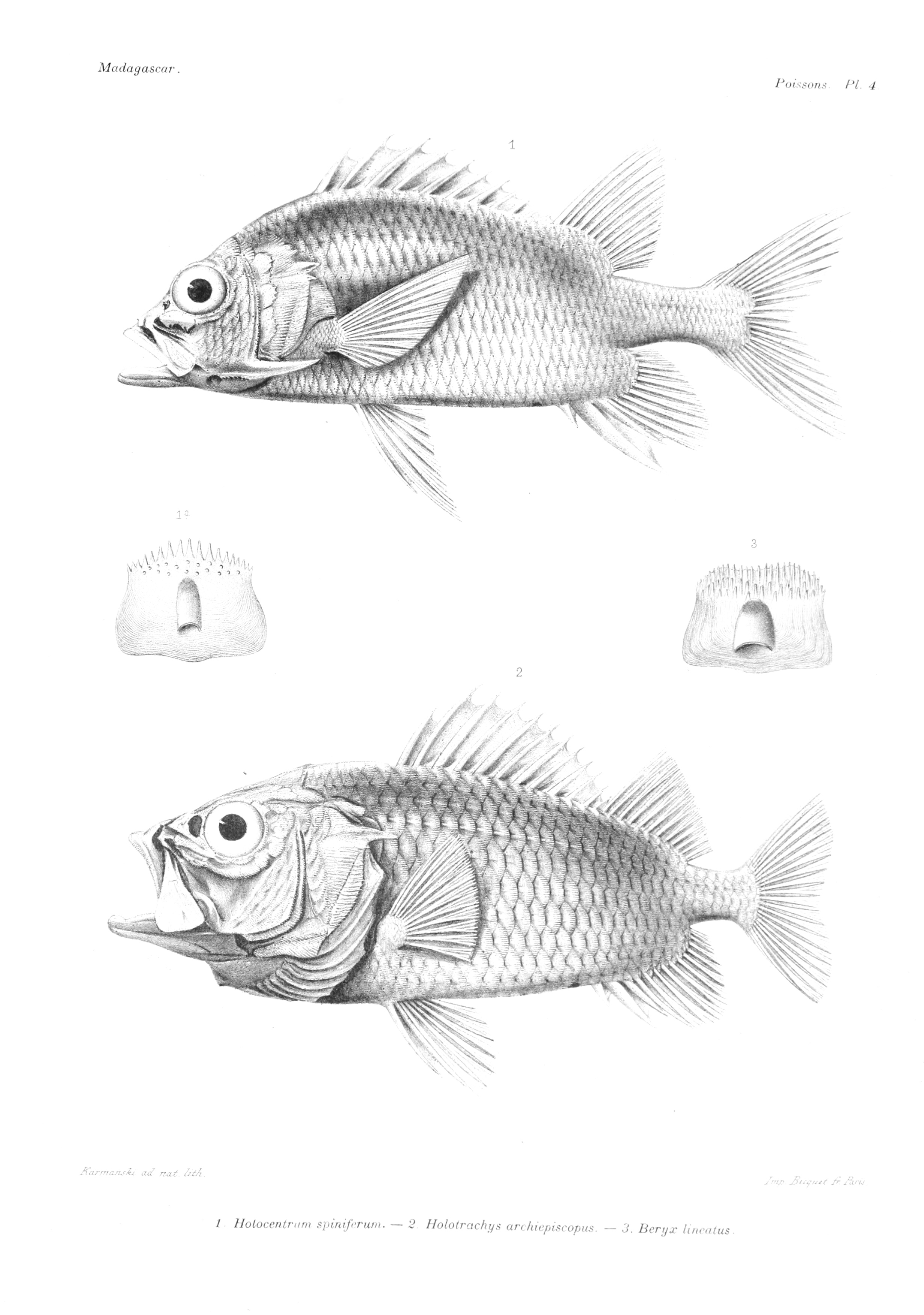 Holocentrum spiniferum = Sargocentron spiniferum Holotrachys archiepiscopus = Ostichthys archiepiscopus Beryx lineatus = Centroberyx lineatus